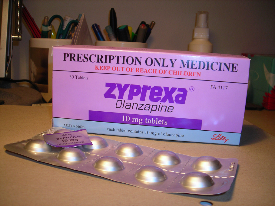 Zyprexa 10mg box. Dispensed in Australia